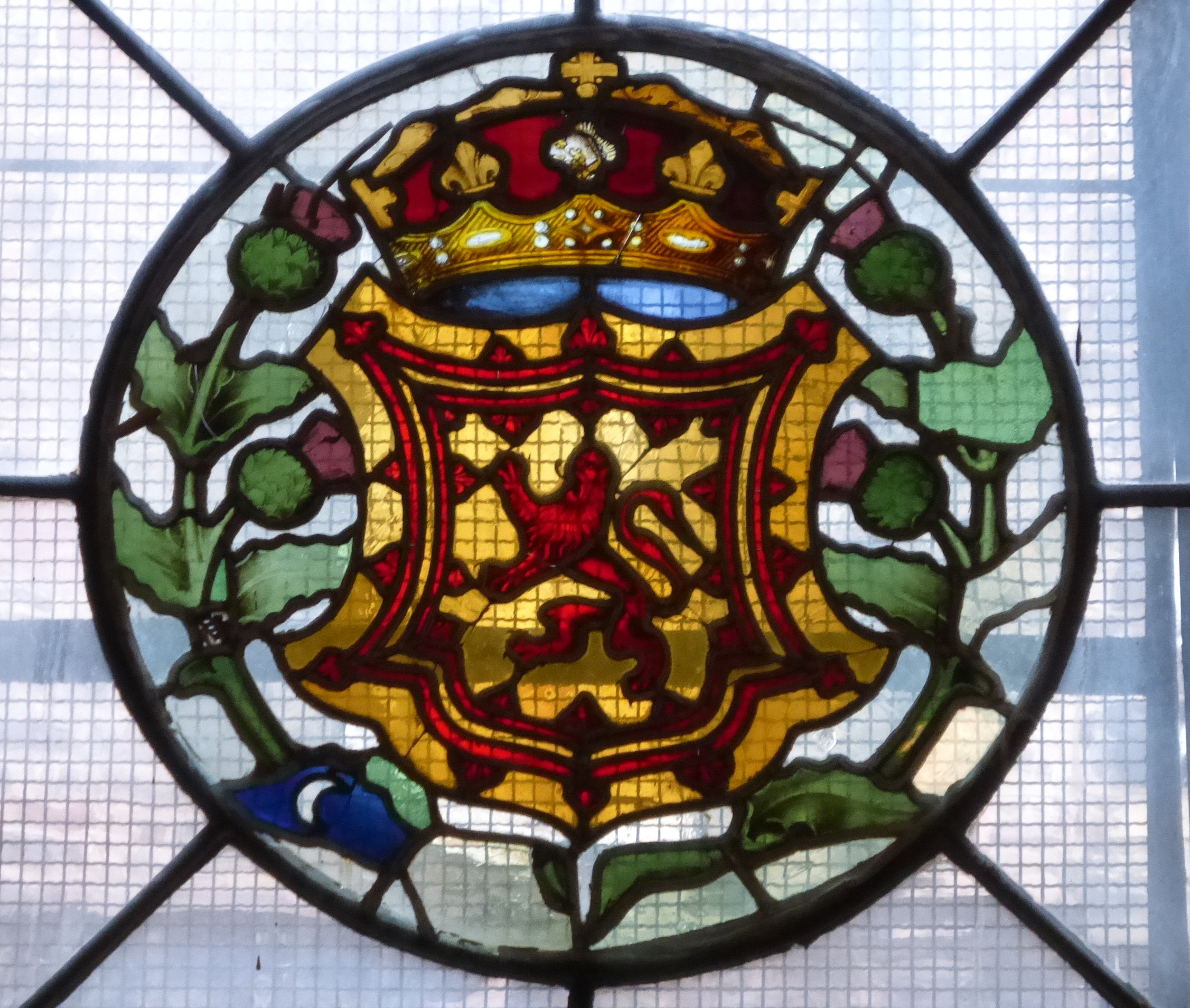 A rare example of stained glass surviving from the period before the Scottish Reformation in 1560. The fragment showing a night sky and crescent Moon appears to have been a repair.